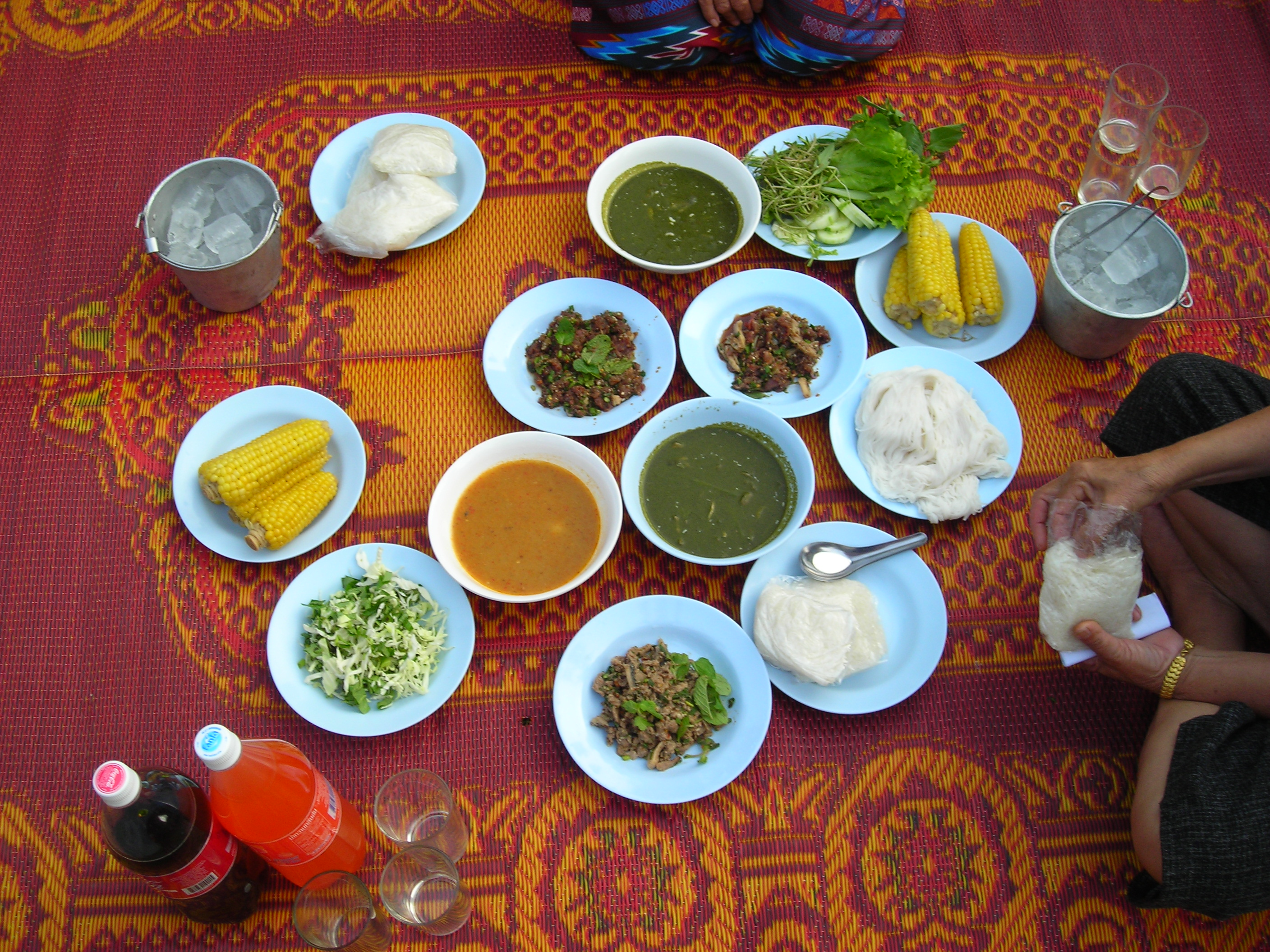 A breakfast in the Isaan region of Thailand, serves a family.